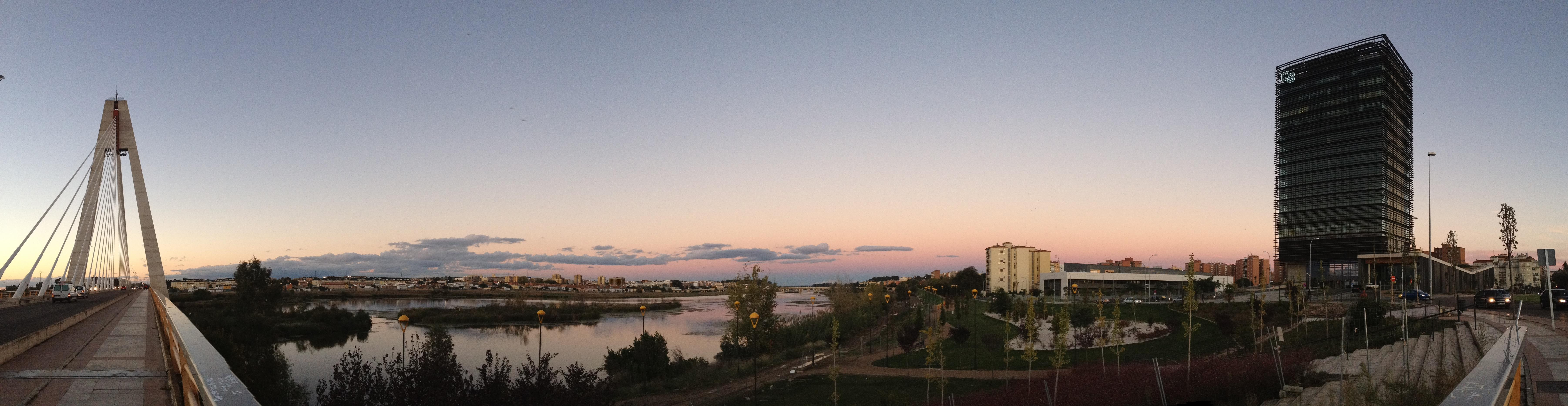 Paso del río Guadiana por Badajoz, a su paso por el Puente Real y el rascacielos de Caja Badajoz